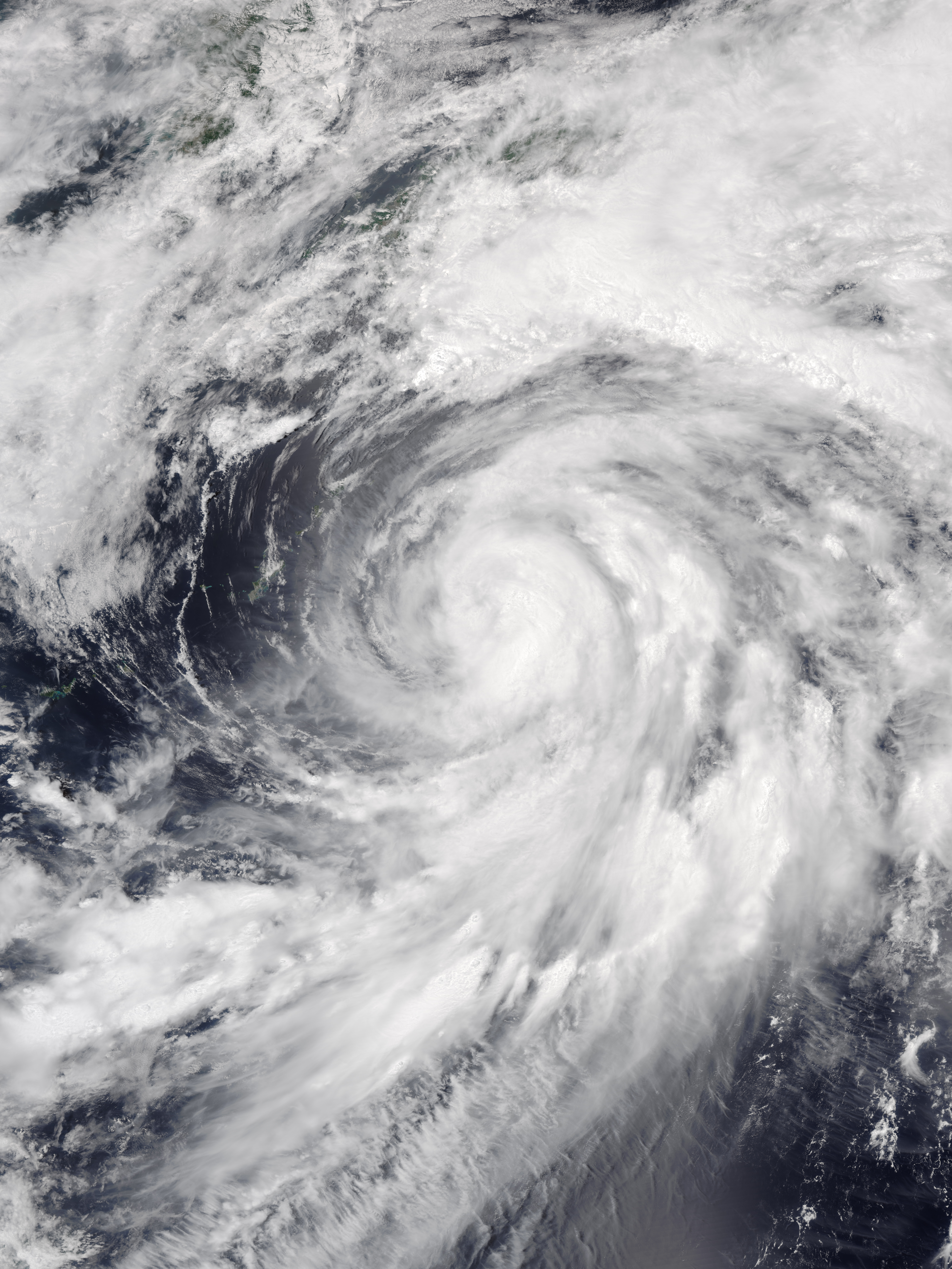 Typhoon Maliksi on June 10, 2018